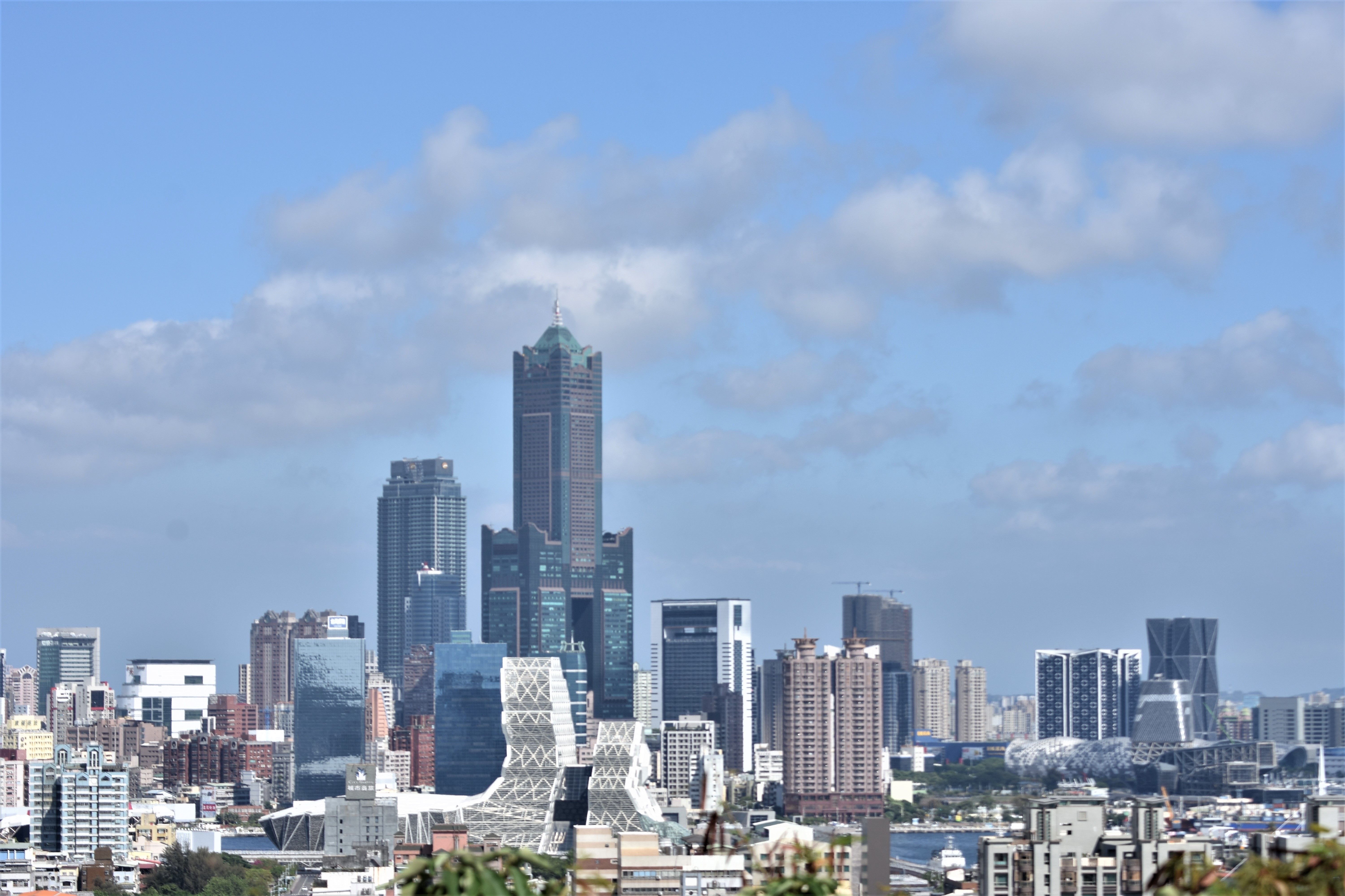 Kaohsiung skyline from Shoushan.